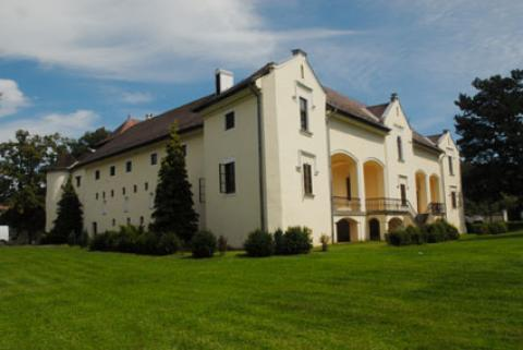 Melczer Mansion in Alsókéked (Kéked) This is a photo of a monument in Hungary. Identifier: 2852